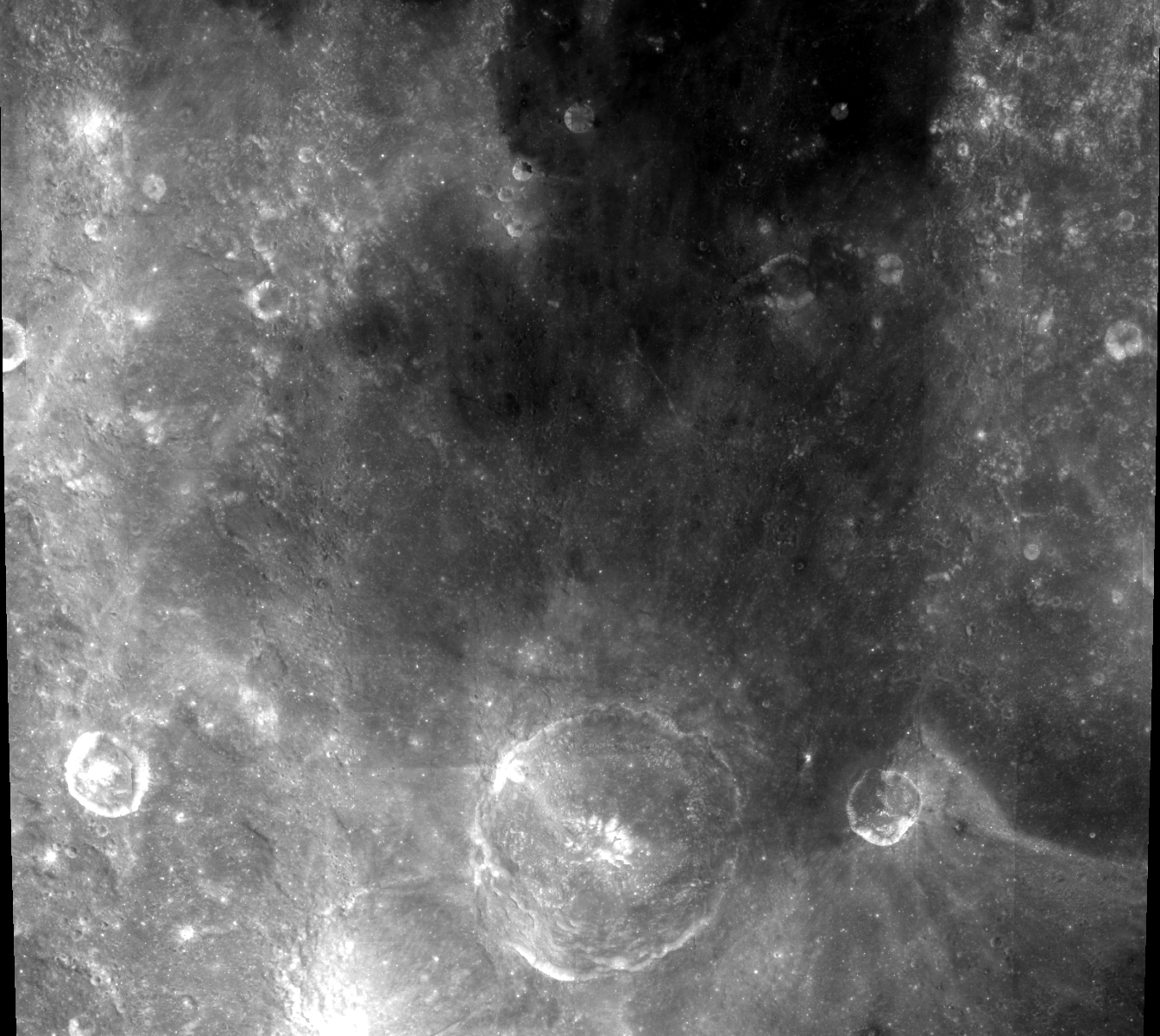 Sinus Asperitatis, Teophilus